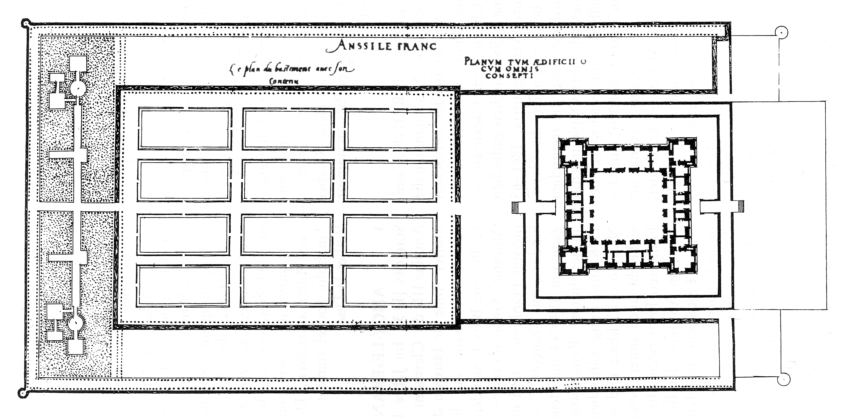 Floor plan of the Château d'Ancy-le-Franc, 16th century engraving